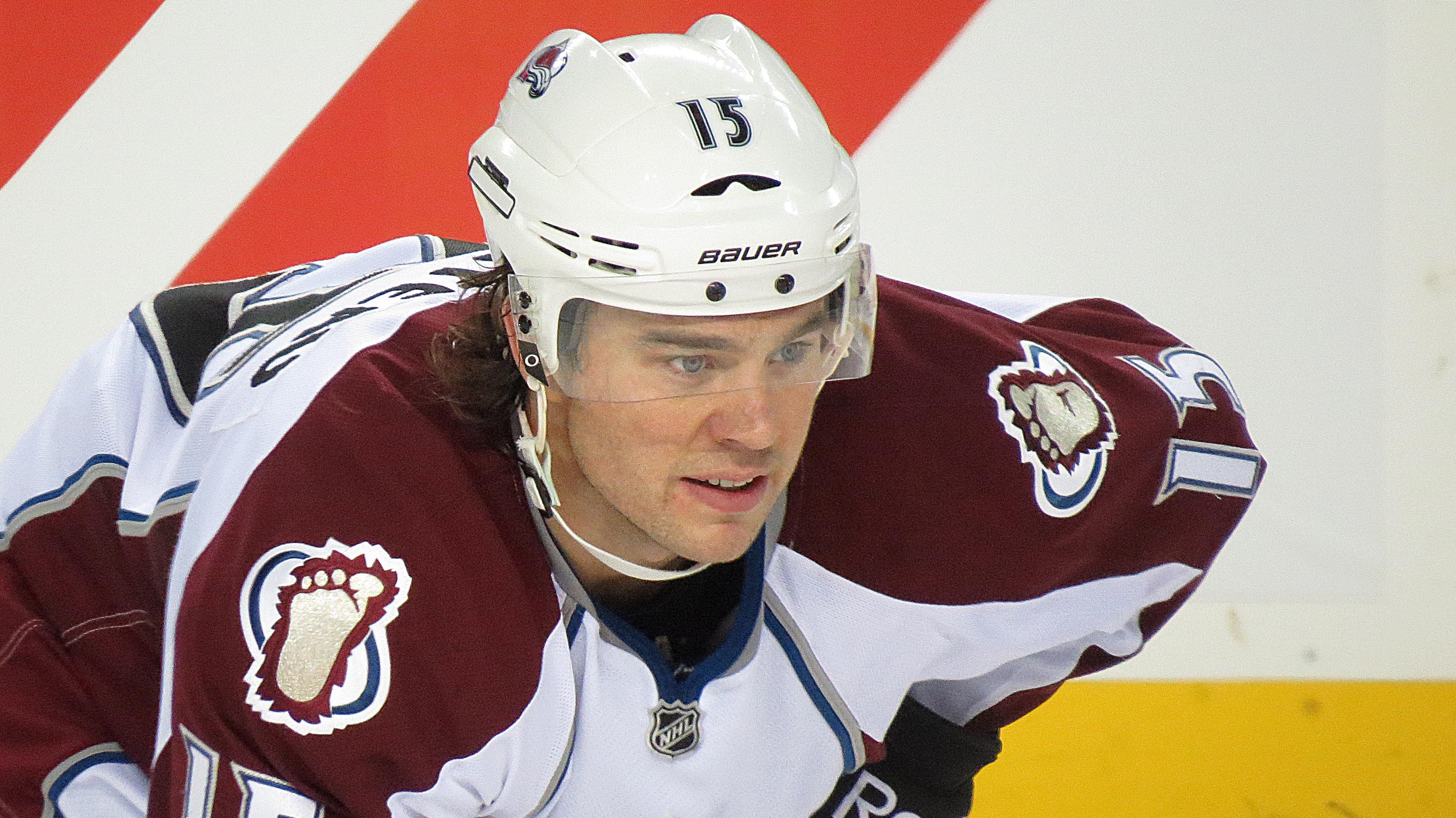 P. A. Parenteau of the Colorado Avalanche during the 2013–14 season.